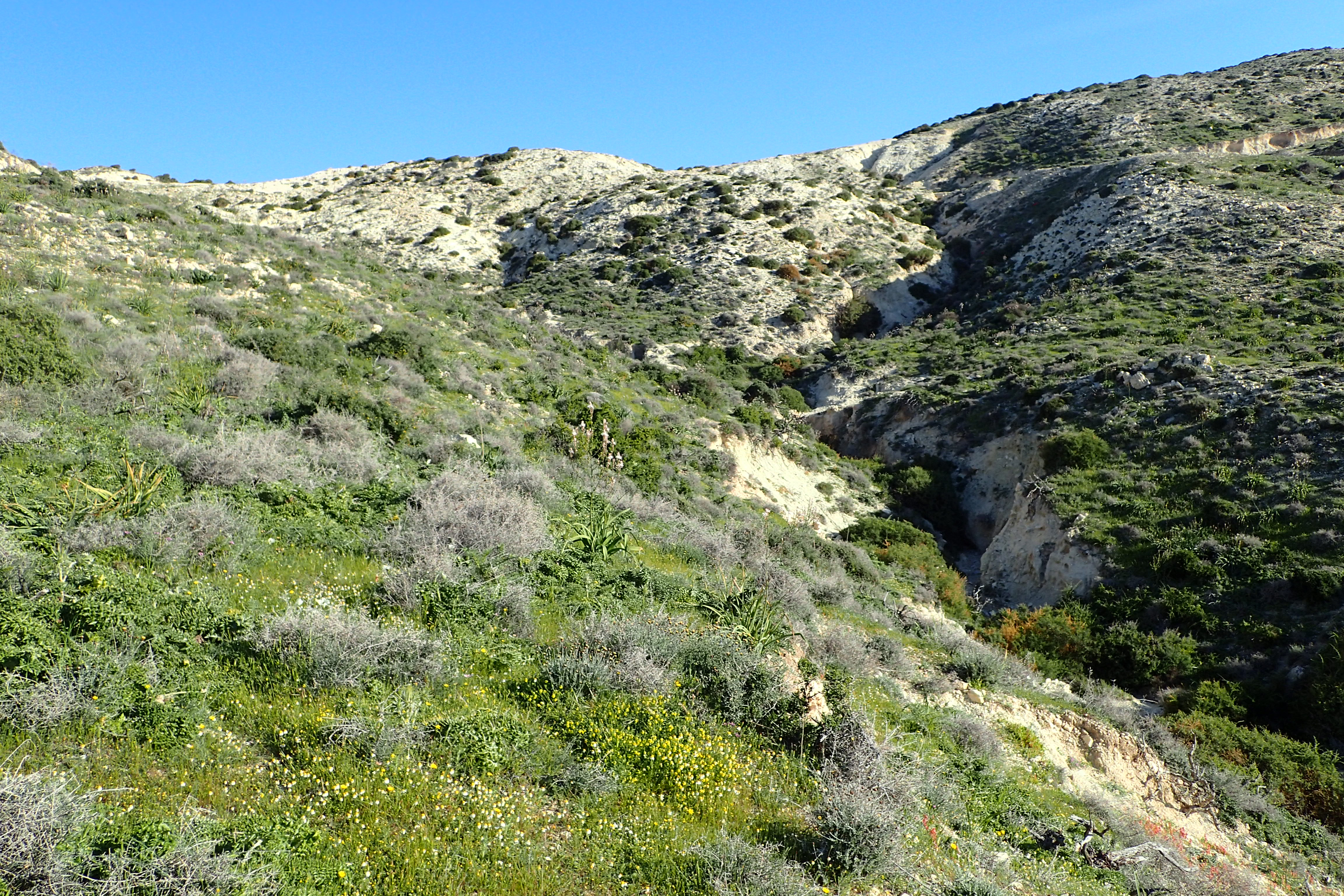 Phrygana on limestones close to Rock of Aphrodite, Southern Cyprus